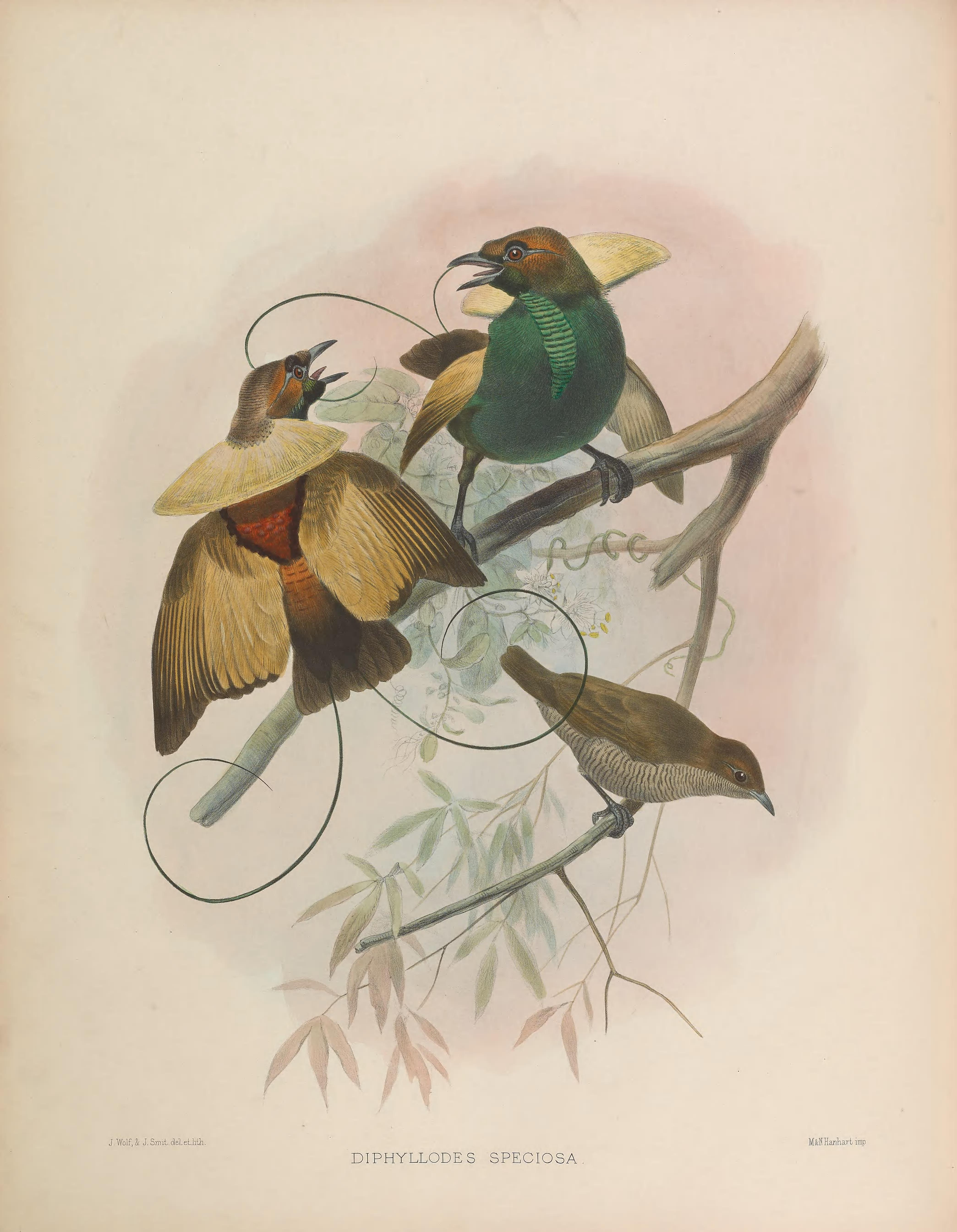 A monograph of the Paradiseidae or birds of paradise.